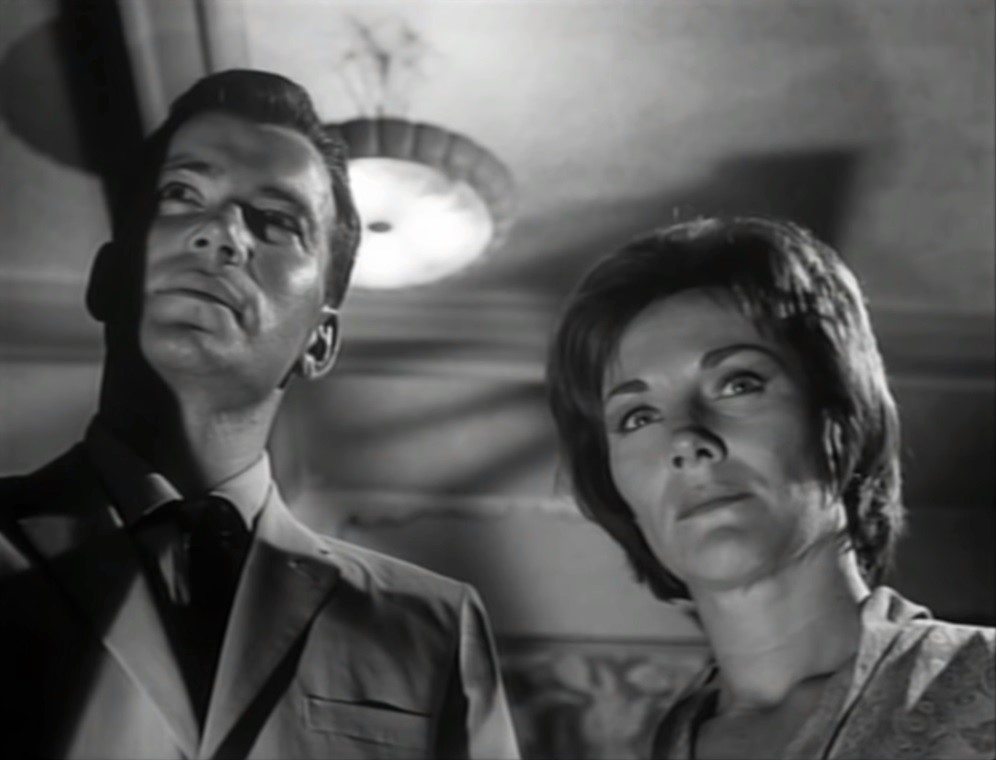 William Shatner and Jeanne Cooper in The Intruder aka Shame - cropped screenshot